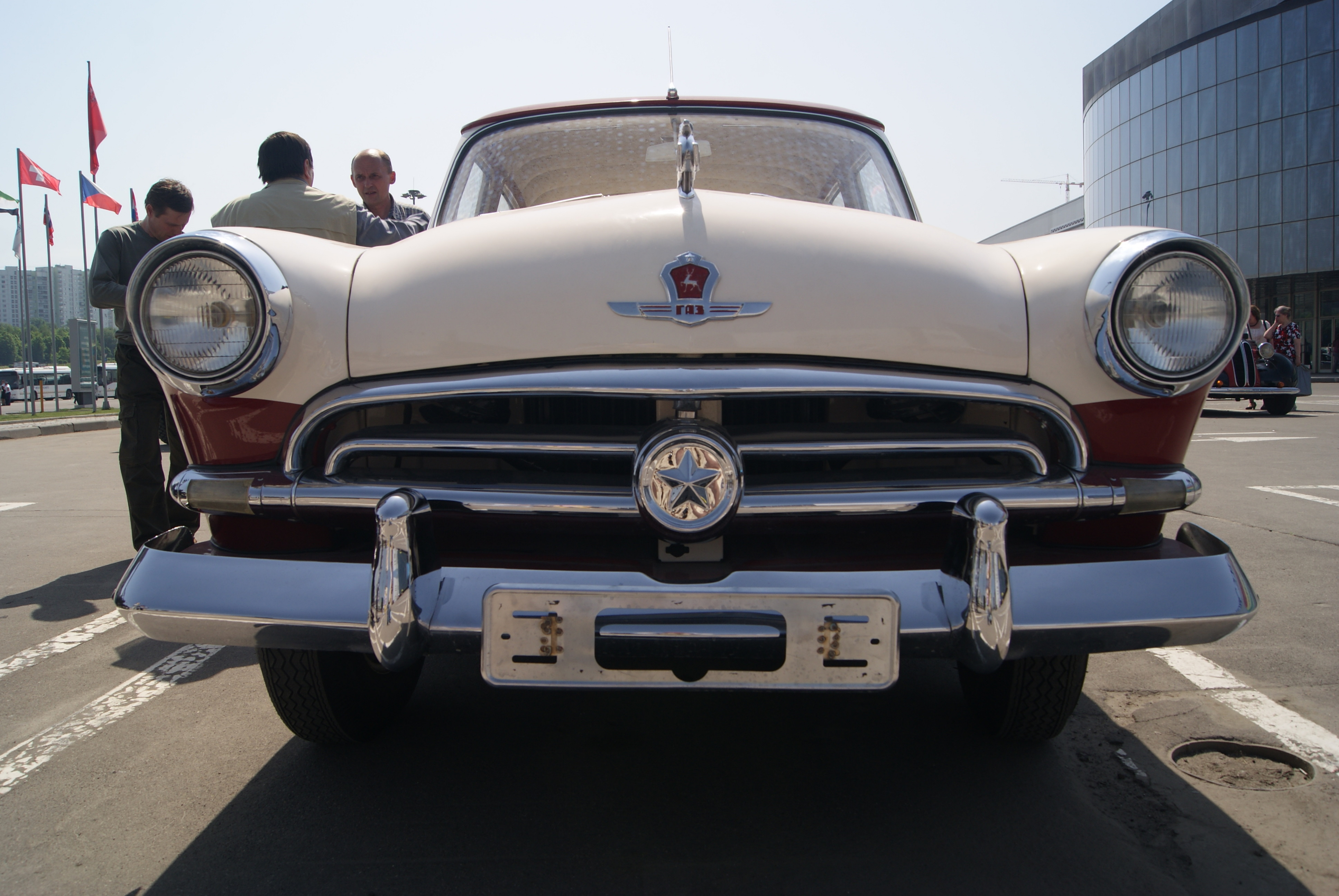 Volga GAZ-M-21, First Series — produced 1956 - 1958 in the Soviet Union.